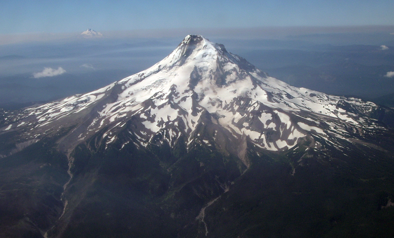 Mt. Hood Looking South with Mt. Jefferson in background